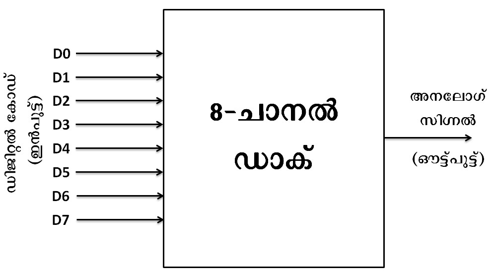 Simple Block Diagram of Digital-to Analog converter with captions in Malayalam.